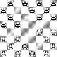 Old Opening in russian checkers